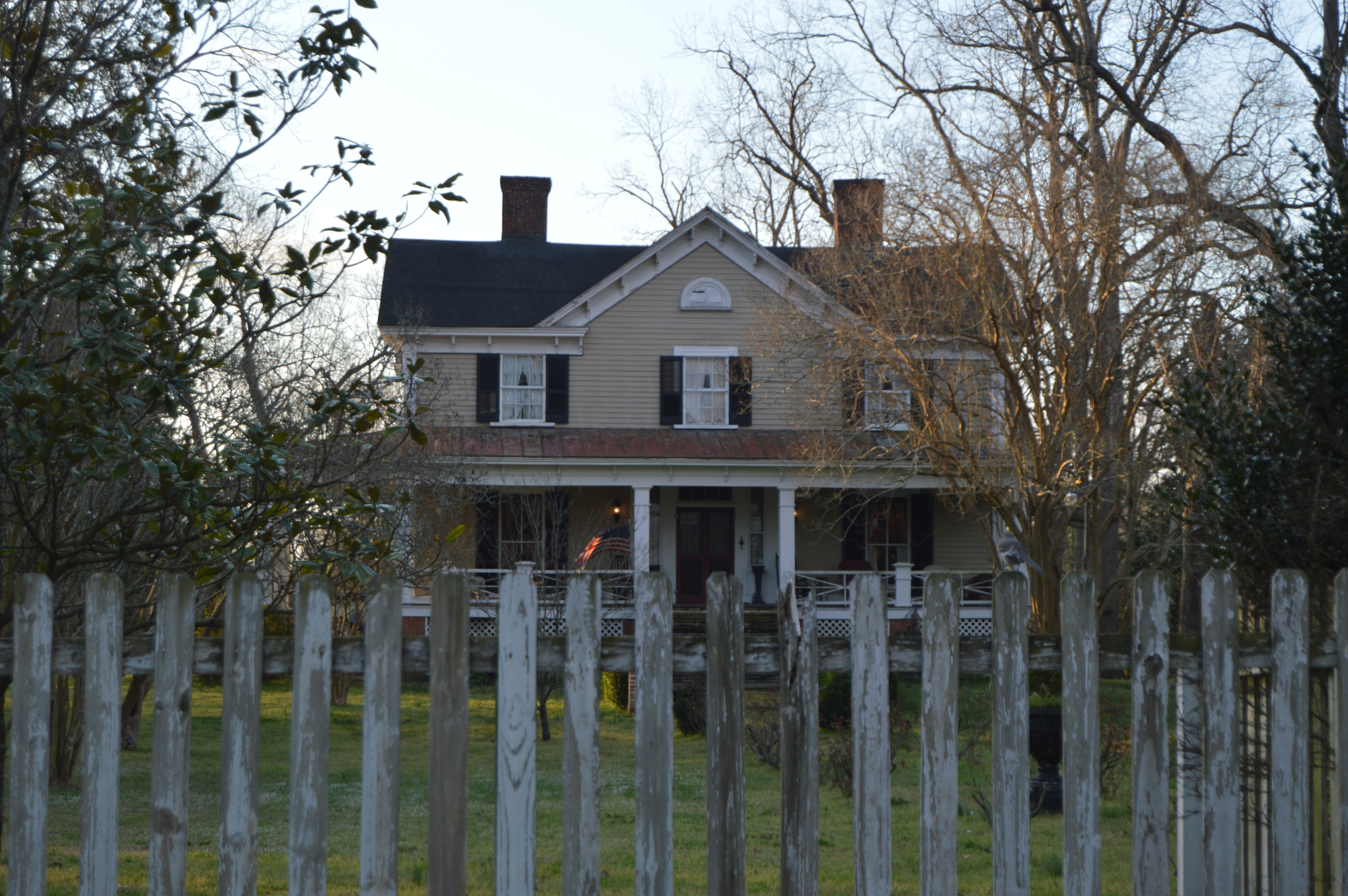 Front of the Latham House, located at 311 Main Street in Plymouth, North Carolina, United States. Built in 1850, it is listed on the National Register of Historic Places.